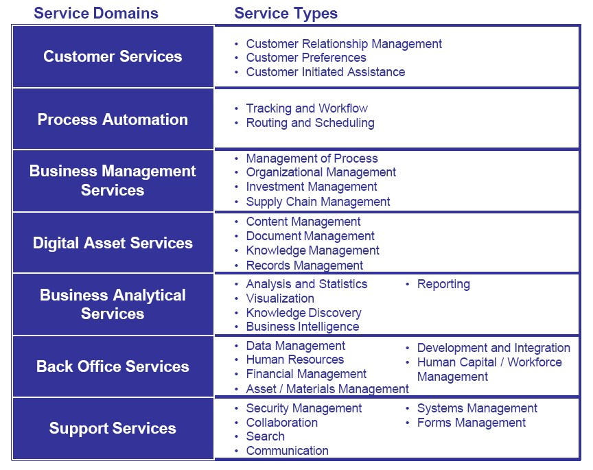 Technical Reference Model.